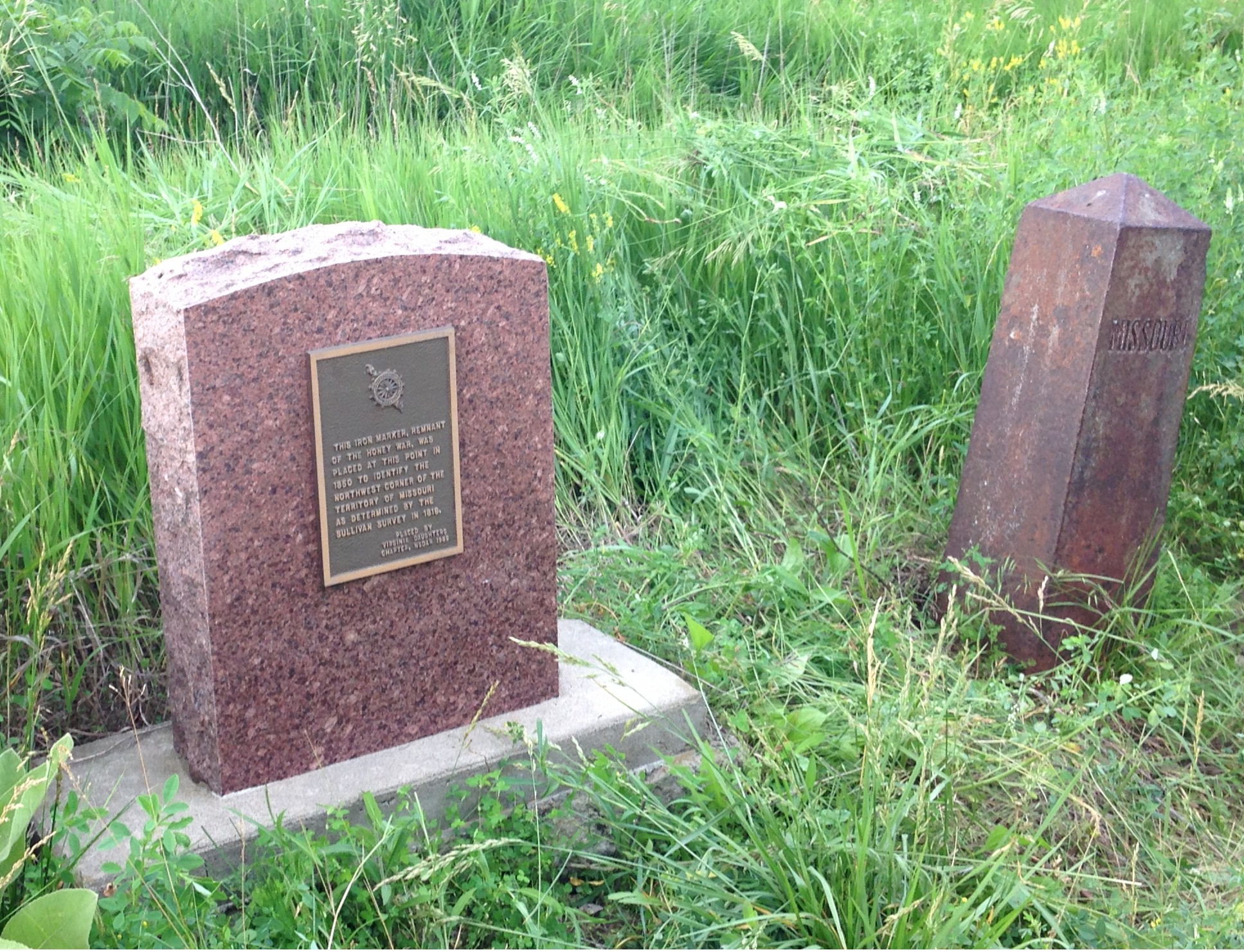 Corner marker and monument north of Sheridan, Missouri Marker showing the start of the Sullivan Line. The monument commemorates the Honey War